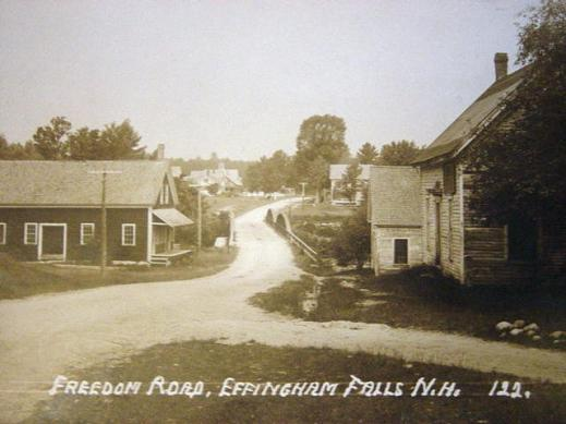 Freedom Road, Effingham Falls, New Hampshire